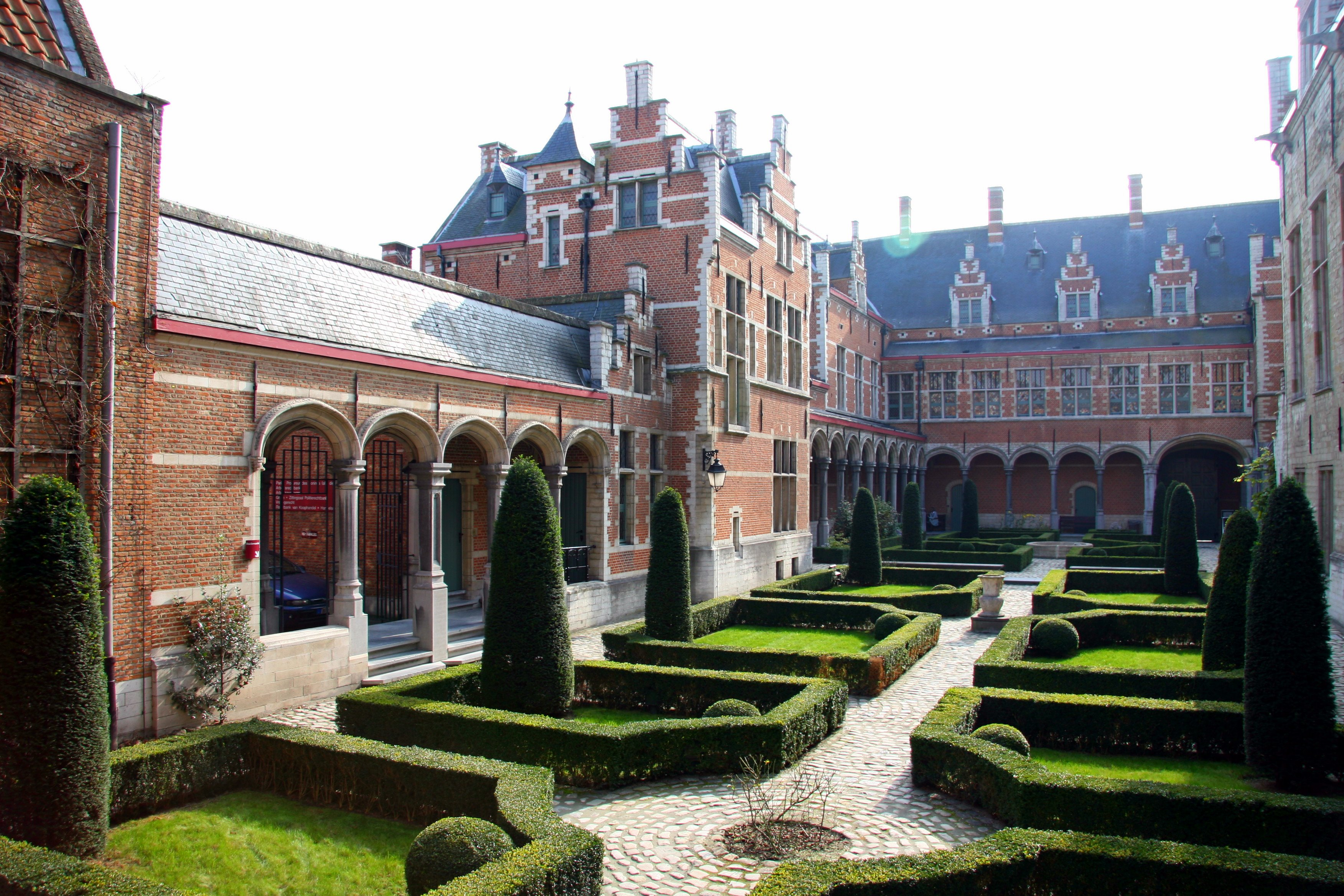 The garden of the Hof van Margaretha van Oostenrijk (or Hof van Savoye), i.e. the palace of Margaret of Austria, in Mechelen (Malines), Belgium. Restoration by Leonard Blomme, 1876.